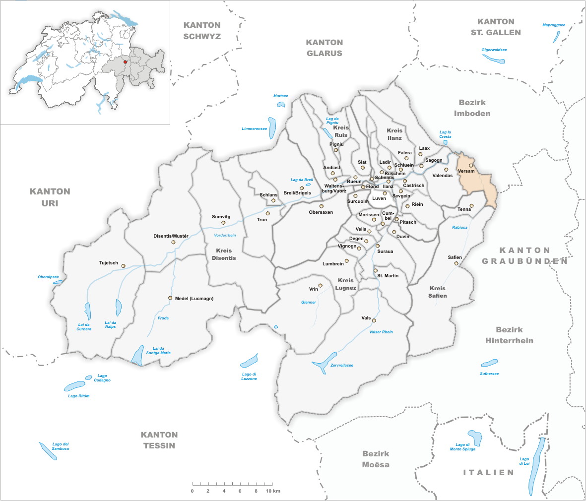 Municipality Versam